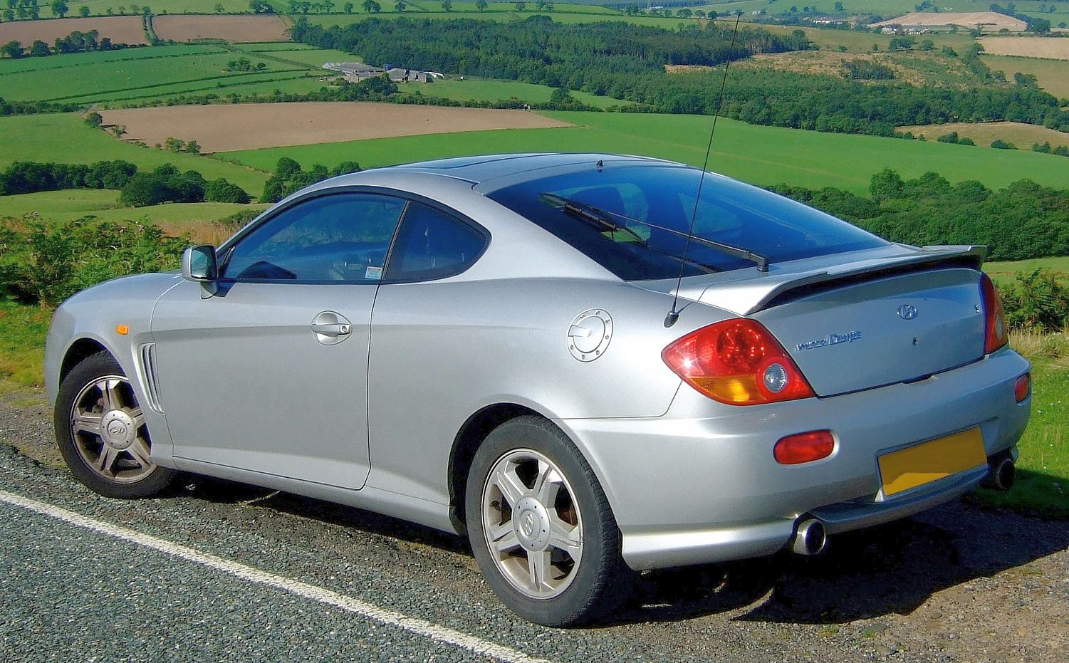 Hyundai Coupe 2002 2.0SE UK model. Cropped version of Image:Hyundai_coupe_2002.jpg to focus more on car.